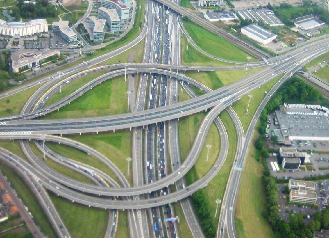 Cropped version of File:Autobunnskräiz-RO-A201.jpg